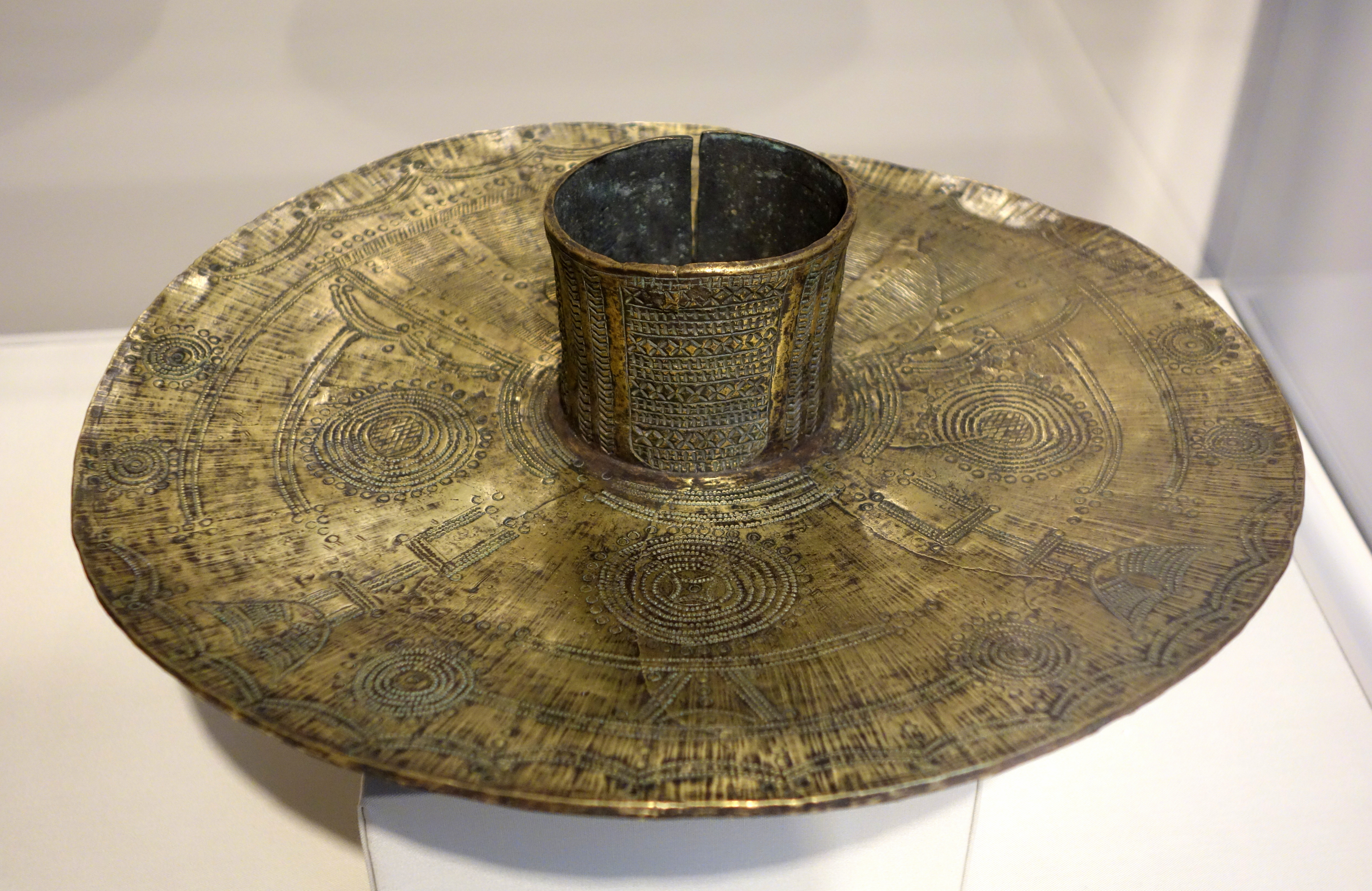 Exhibit in the Chazen Museum of Art, University of Wisconsin-Madison, Madison, Wisconsin, USA. This artwork is old enough so that it is in the public domain.